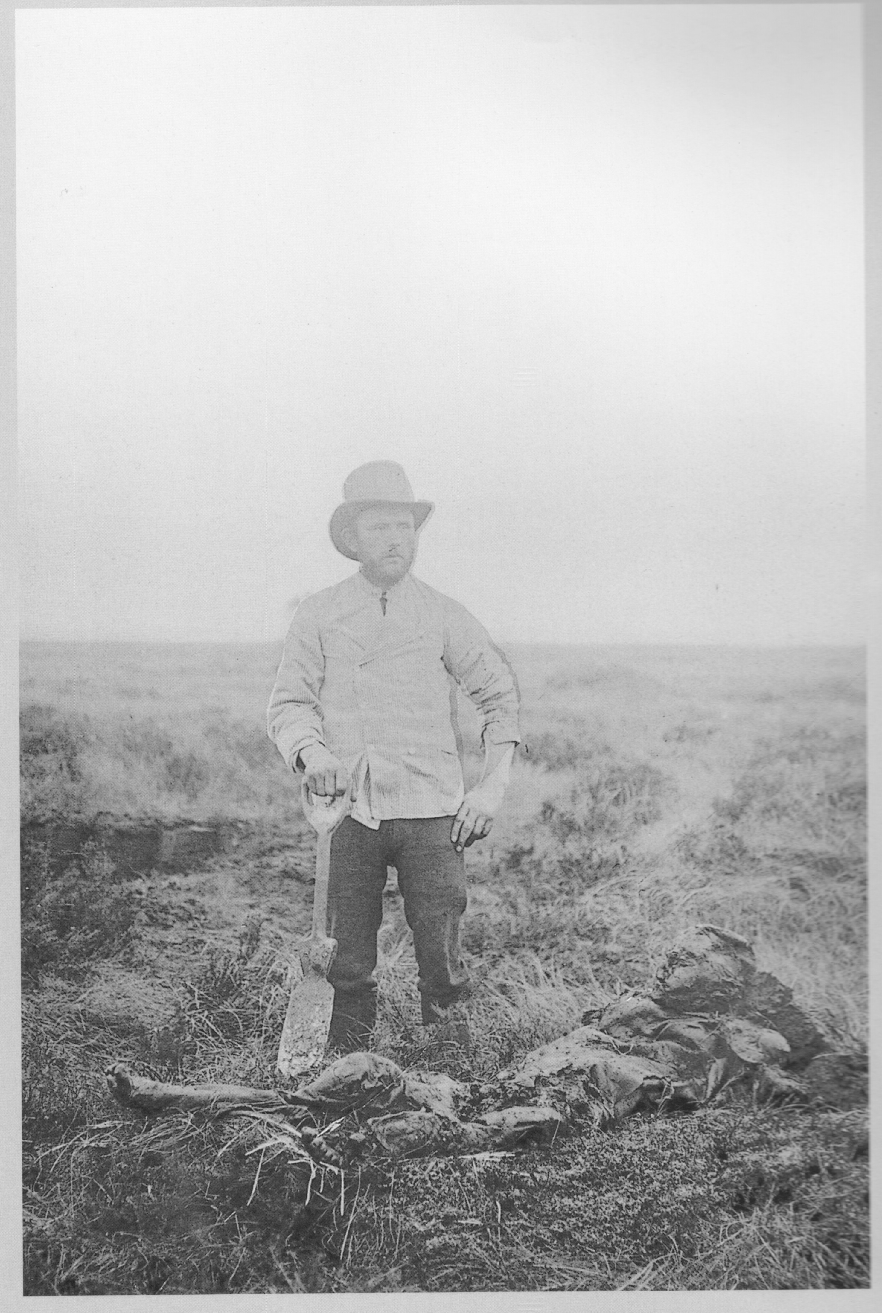 Friedrich Luttmann with bog body "Kreepen Man" which he found in 1903. The remains of the bog body are not existing any more.